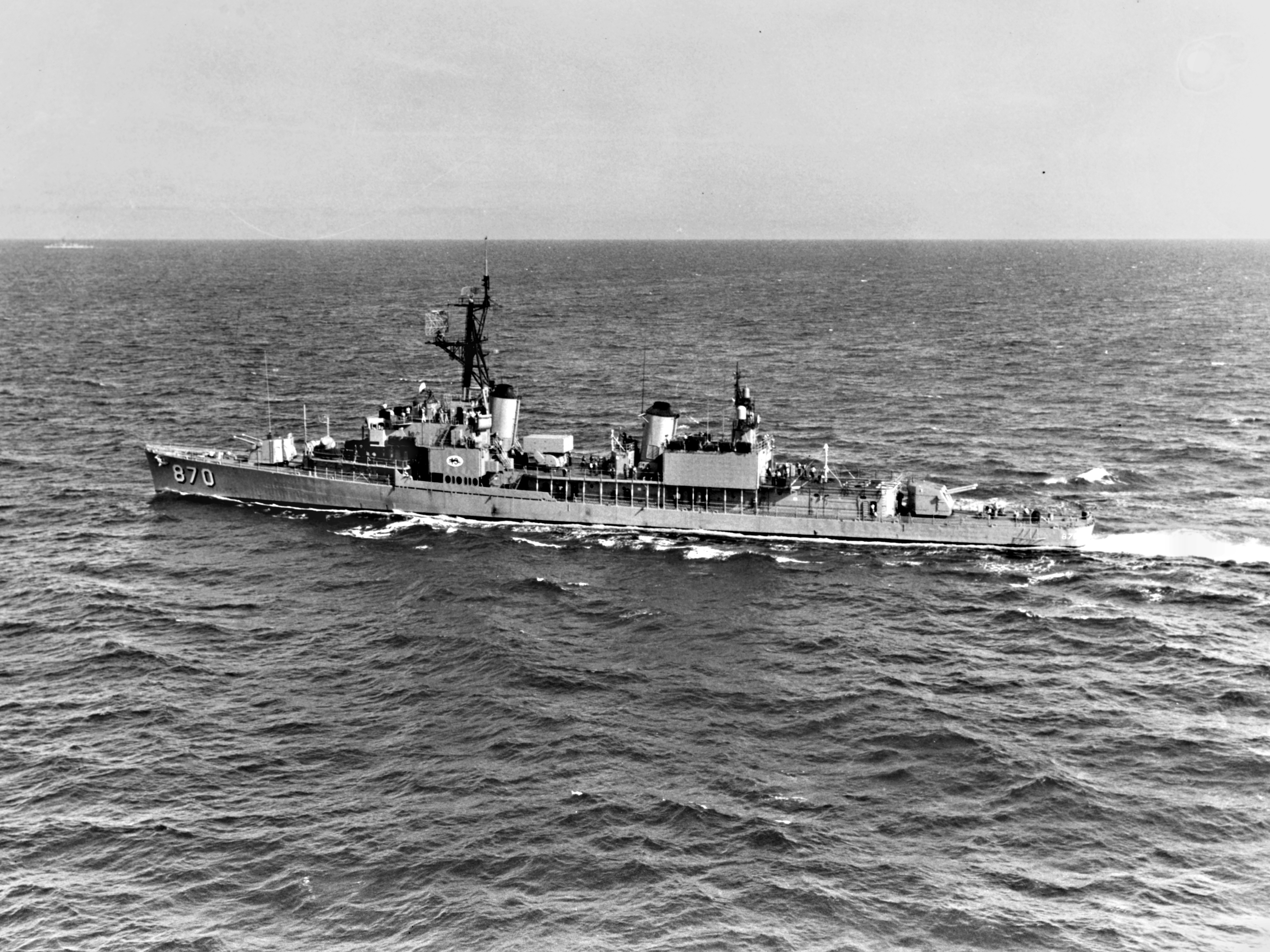 The U.S. Navy destroyer USS Fechteler (DD-870) underway at sea alongside the aircraft carrier USS Constellation (CVA-64) on 12 June 1964. Constellation, with assigned Carrier Air Wing 14 (CVW-14), was deployed to the Western Pacific and the Vietnam War from 5 May 1964 to 1 February 1965.